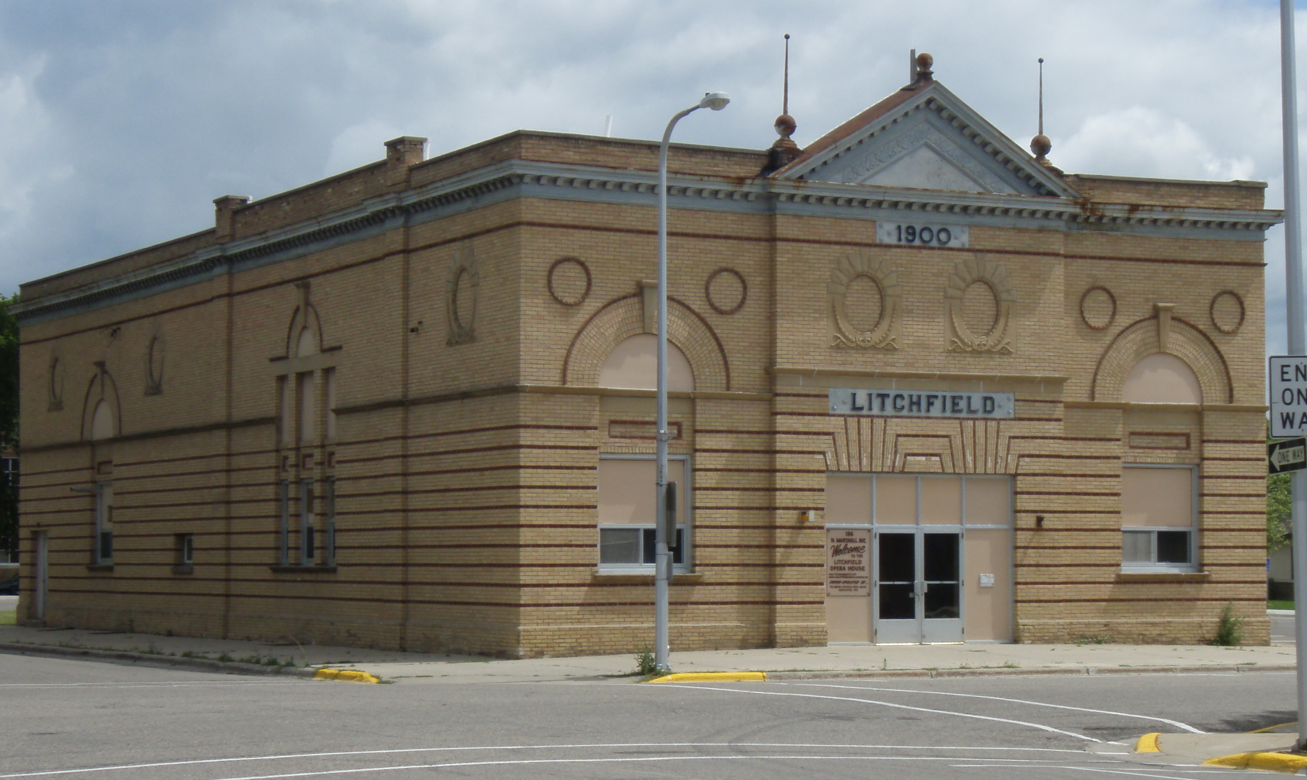 Litchfield Opera House in Litchfield, Minnesota, listed on the National Register of Historic Places.